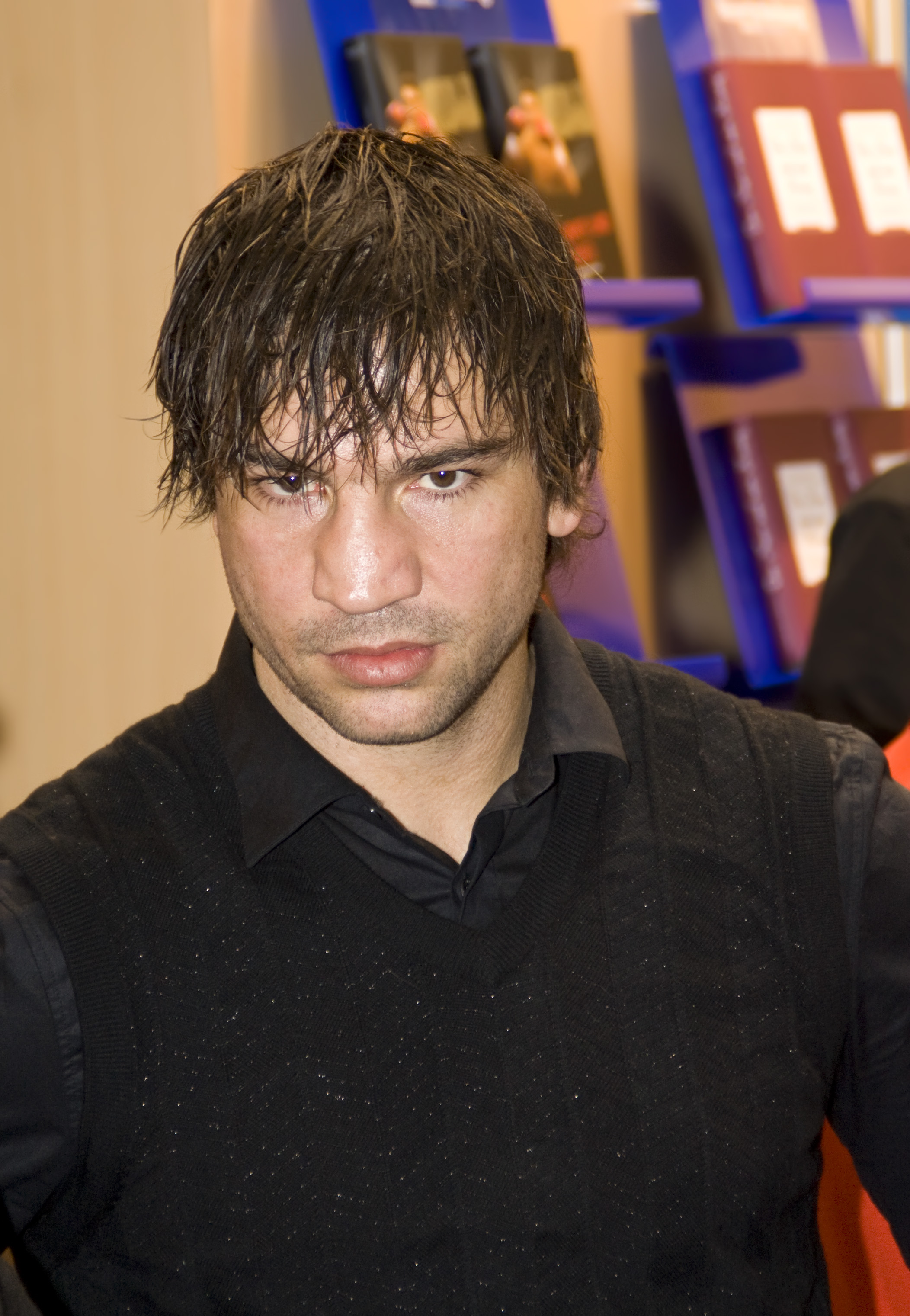 Markus Beyer at the Leipzig Book Fair.